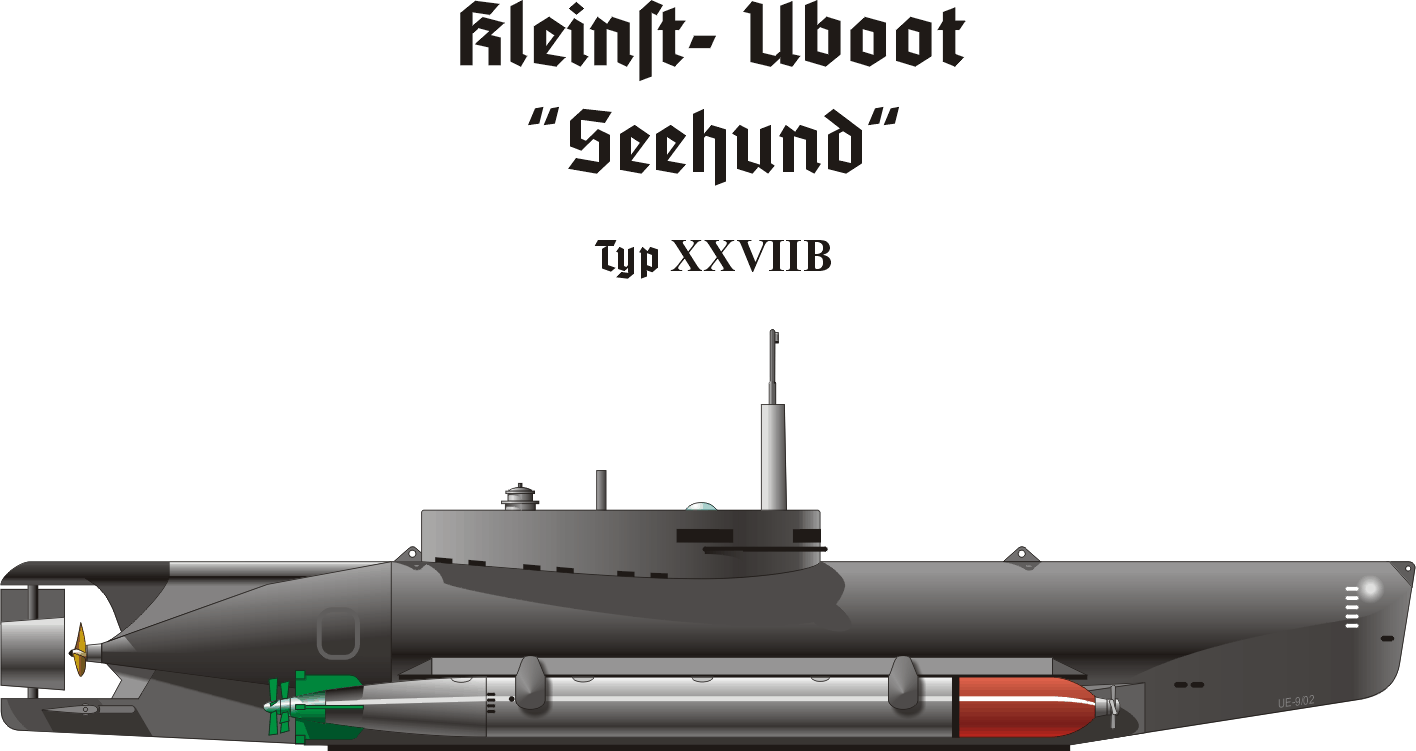 Graphic (Coreldraw); Uwe Ernst